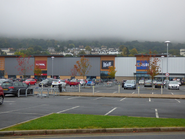 Part of Phase II